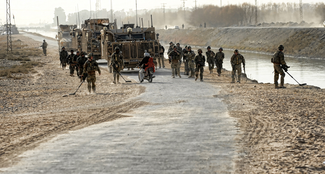 Soldiers from Counter Improvised Explosive Device Task Force, along with members of the Afghan National Army, search a road for improvised explosive devices. --- A significant offensive operation, which takes the independence and self-sufficiency of British-trained Afghan forces to a new level, has begun in central Helmand. As the new year was seen in around the world, Afghan troops were opening a new chapter which sets the scene for their future autonomy and long-term role in the defence of their nation against extremism and terror. Operation OMID PANJ (ÔHope FiveÕ in English) follows on from the successful Operation OMID CHAR which, at the time, was the largest operation in size, number of soldiers and duration to have been planned, led and conducted by the Afghan National Army. But OMID PANJ takes things a step further, with the Afghans relying on even less support from British troops, who are present only in a supporting role. One of the key areas where significant development of Afghan capability is being demonstrated is their growing ability to find and render safe improvised explosive devices, the indiscriminate weapon of choice for the insurgency. Being conducted in the Green Zone, north of the Helmand River, the operation is pushing the Afghan governmentÕs influence and security bubble further out. By the time of its conclusion, it will see a new patrol base established east of Gereshk between the River Helmand and the Bandi Barq Road. This rural area, filled with irrigation ditches, canals and small farm plots, interspersed with residential compounds, has suffered from significant insurgent intimidation due to its proximity to smuggling routes into Gereshk city.